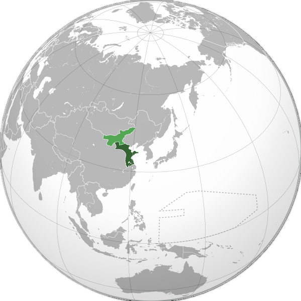 Green: Republic of China-Nanjing in 1939Elm: Mengjiang (incorporated as region in 1940)